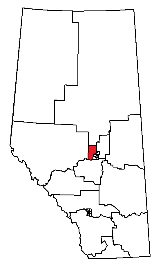 location of St. Albert riding in Alberta (1997 and 2000 boundaries)